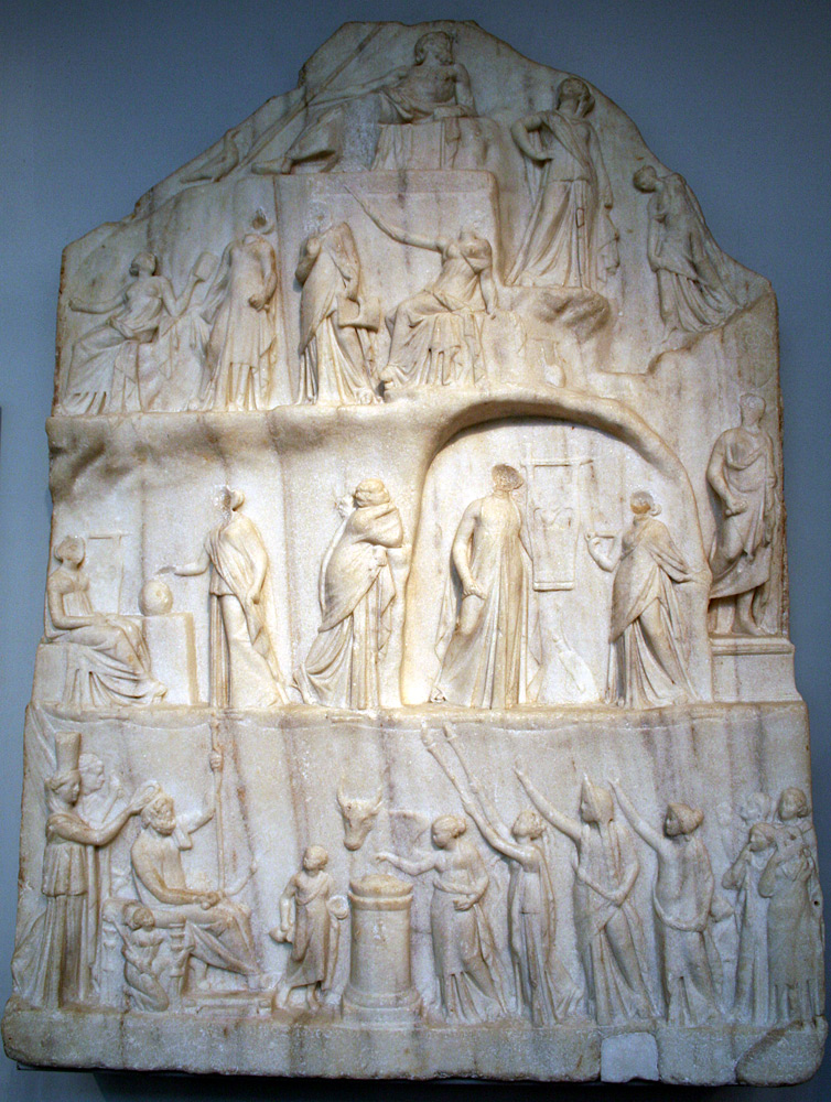 The Apotheosis of Homer. Marble relief of the 3rd century BC in the British Museum, London.